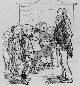 School scene, by Heinrich Zille